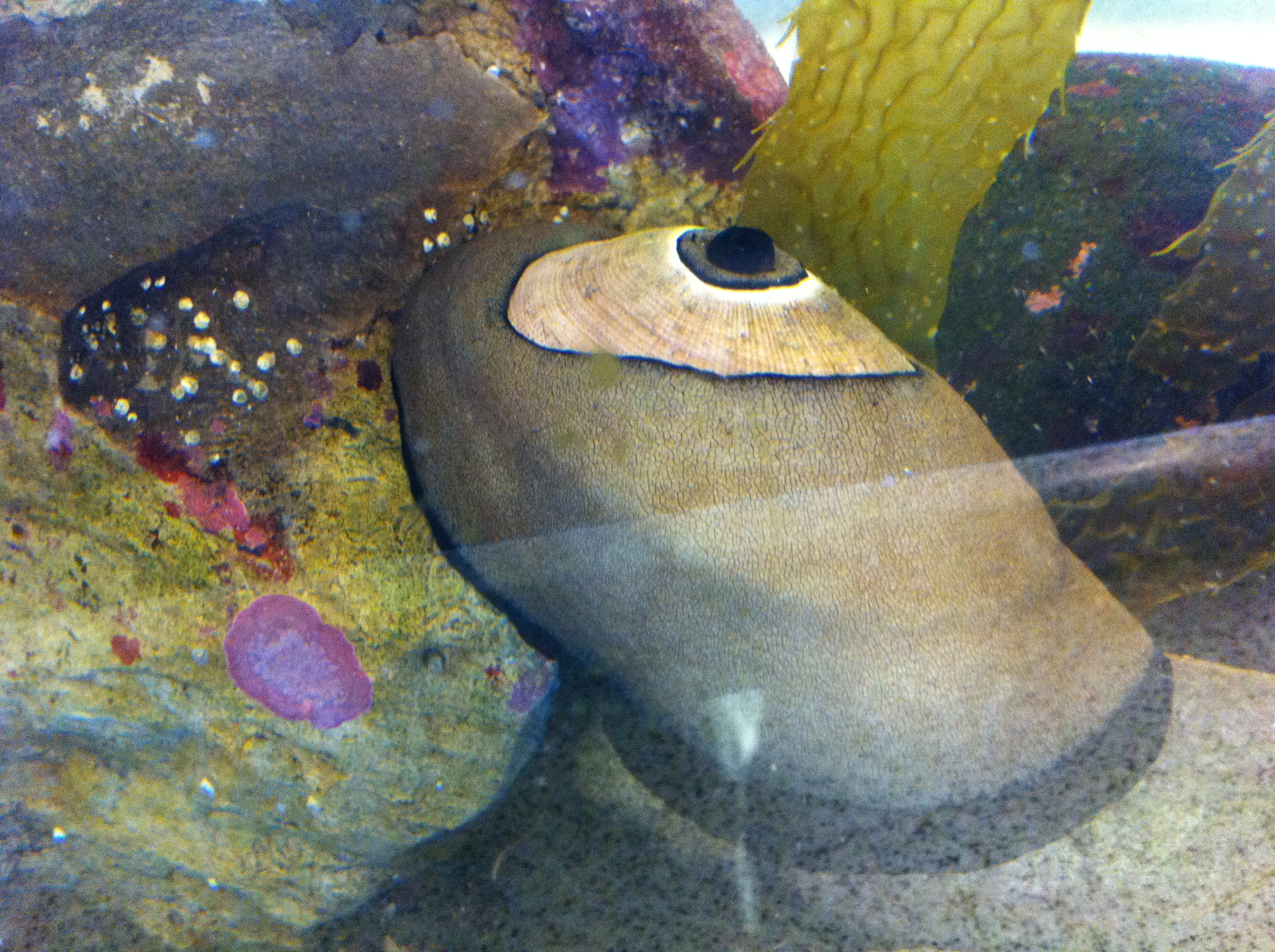 Living specimen of Megathura crenulata (Giant keyhole limpet) with mantle extended over shell. In display tank at Ty Warner Sea Center on Stearns Wharf, Santa Barbara, California.